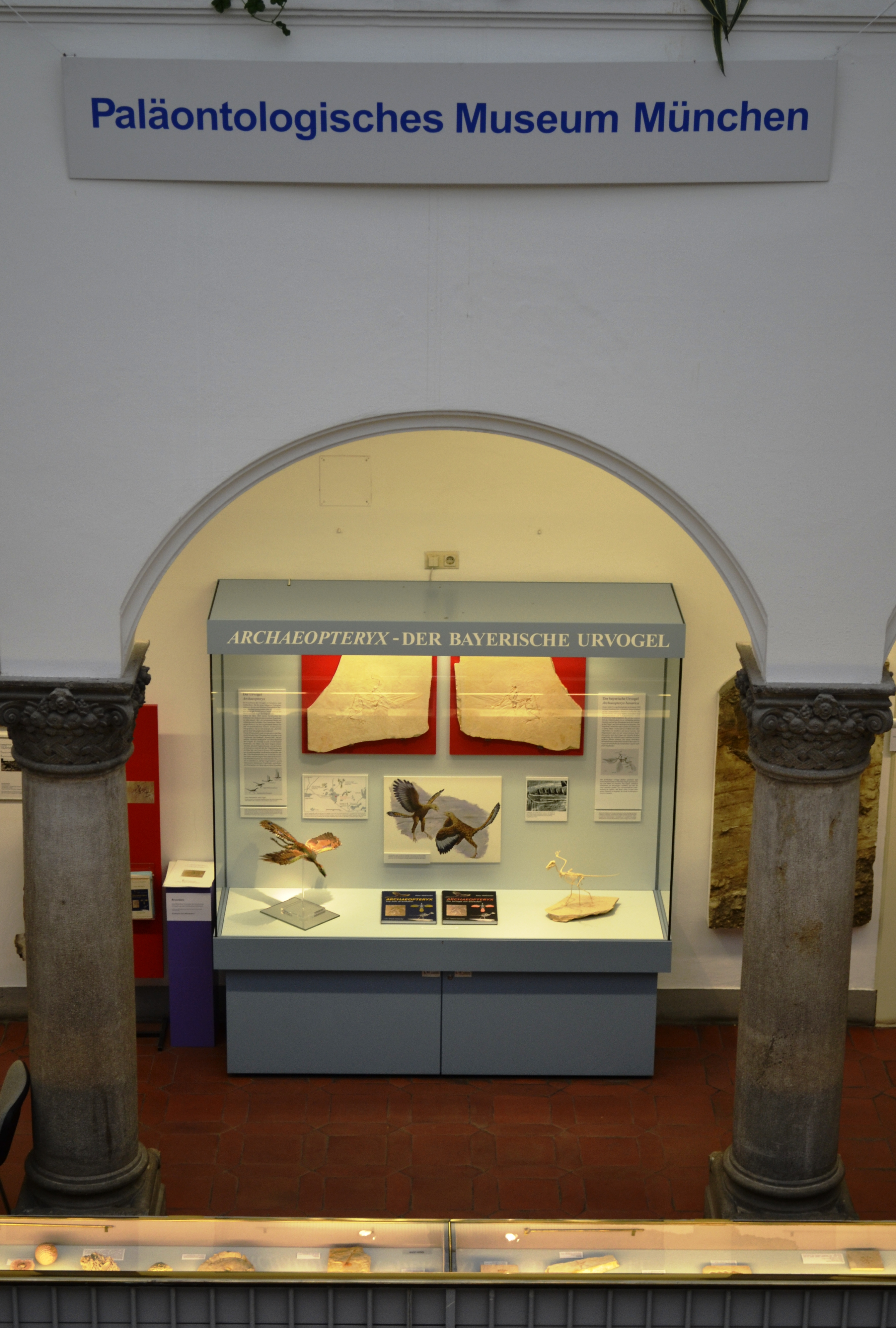 Archaeopteryx-Schaukasten im Paläontologischen Museum München.